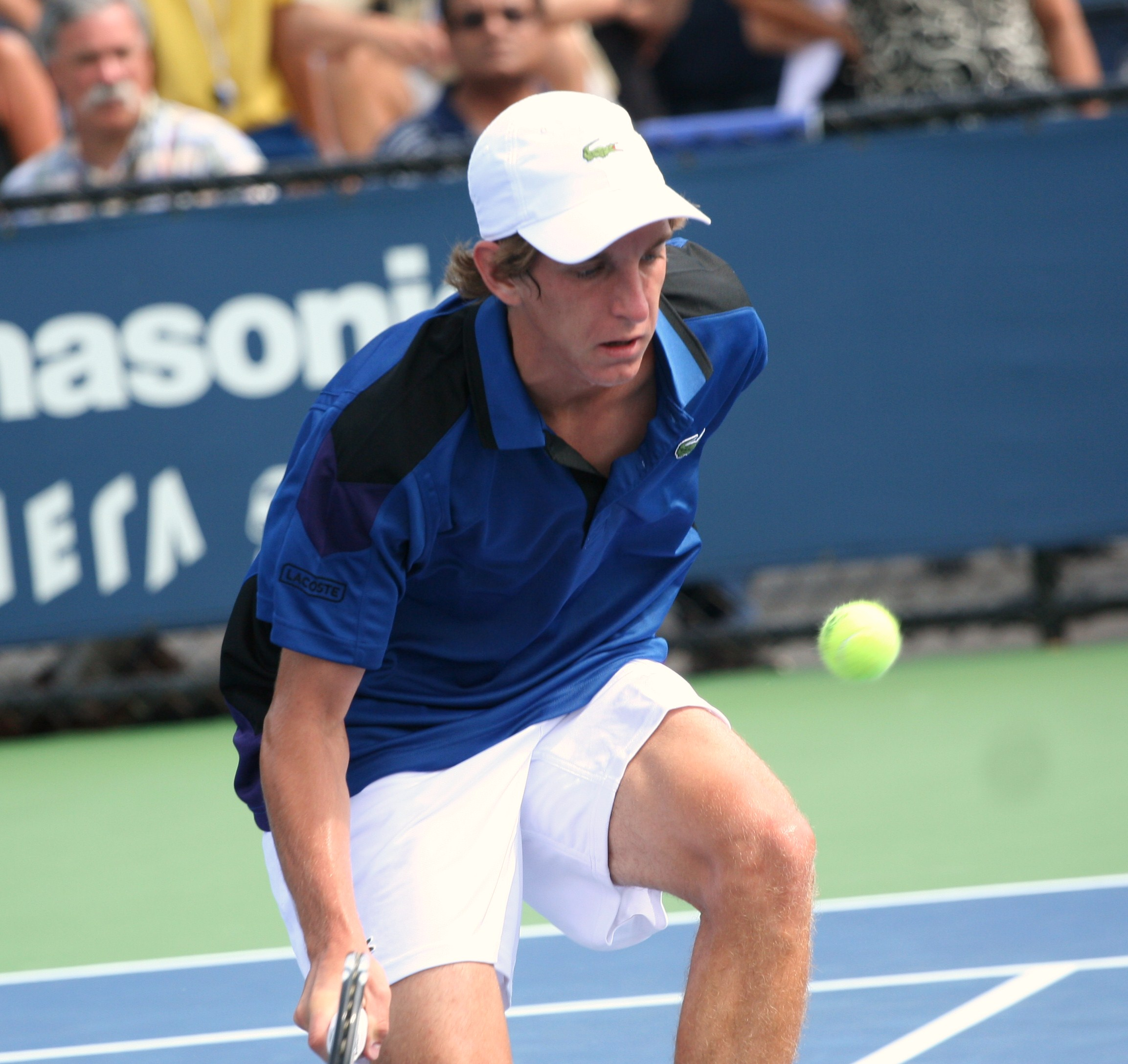 U.S. Open Juniors Monday, Sept. 5, 2011